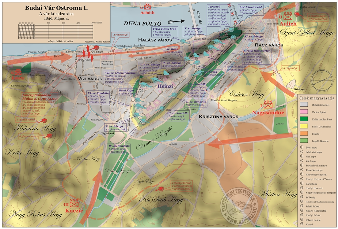 The situation at the Siege of Buda in 4 of May